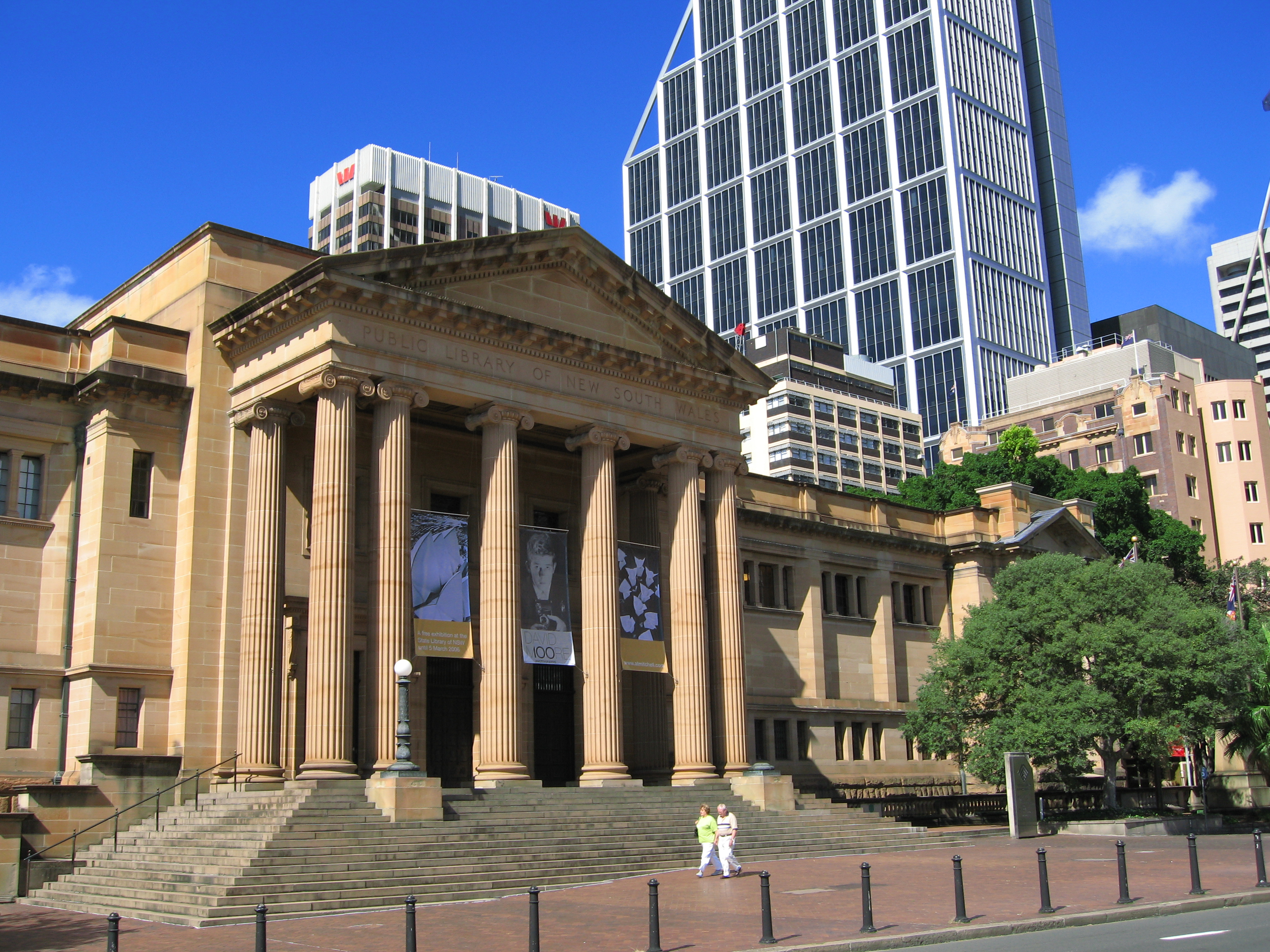 Mitchell Library, State Library of New South Wales, Sydney, Australia.